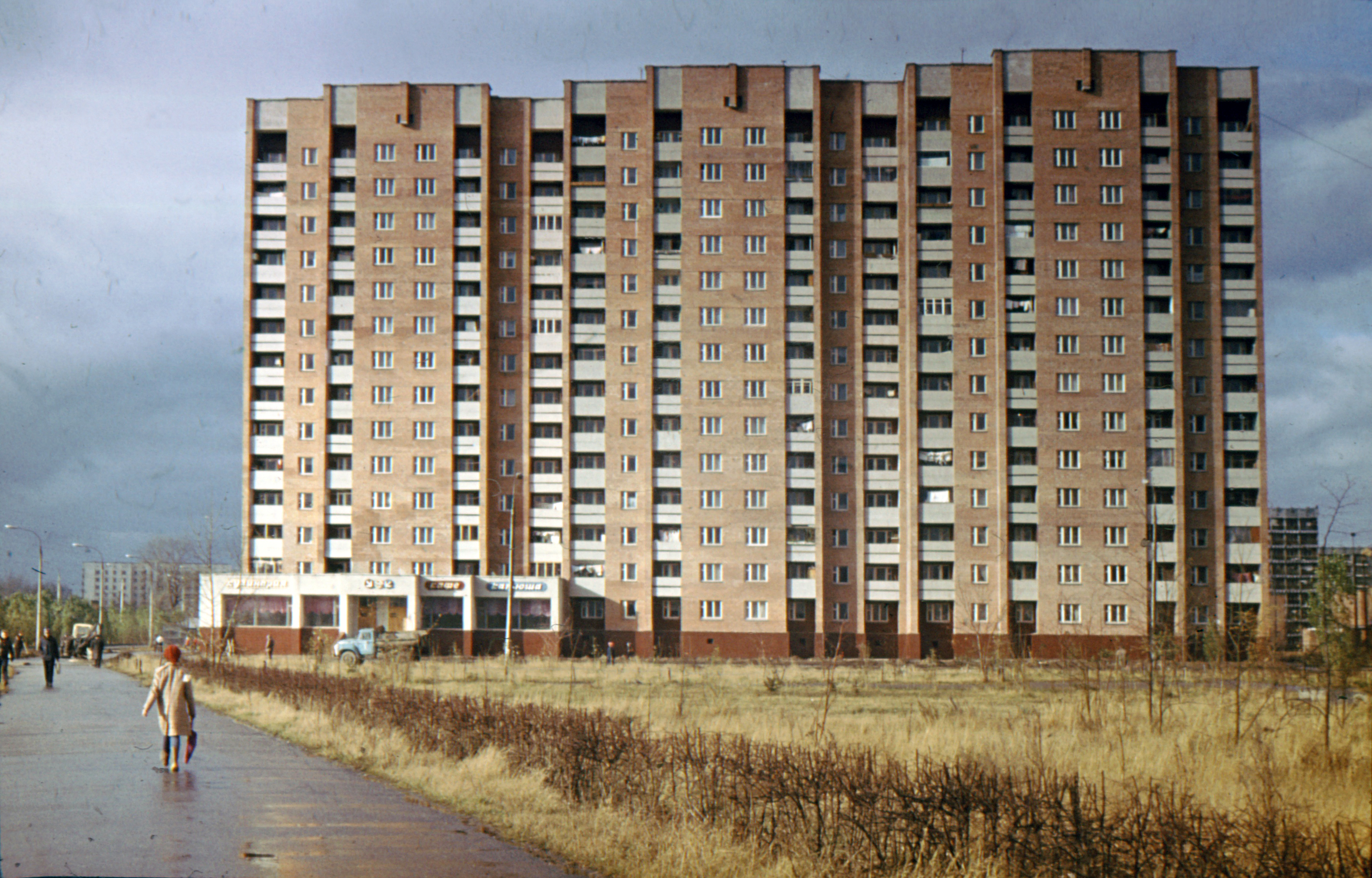 Gorky City. Meshcherskoe Ozero Mikrodistrict. Akimov Street, 5